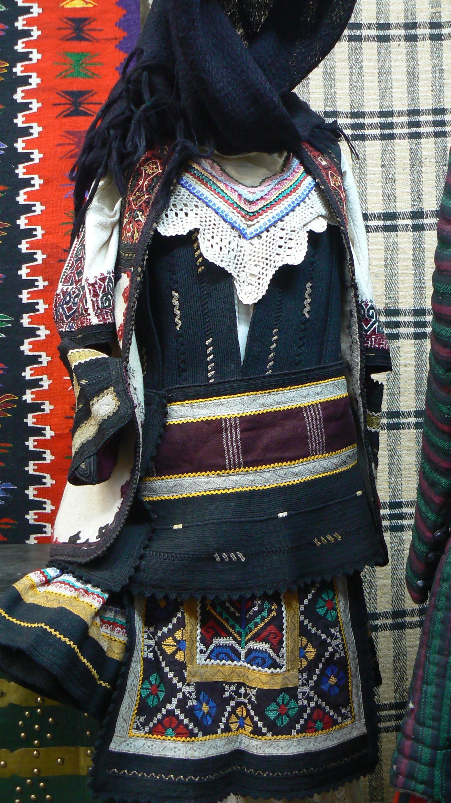 19 century female sarakatsani costume from Vratsa region. Exhibited in the Ethnographic complex "Saint Sophronius of Vratsa". Vratsa, Bulgaria